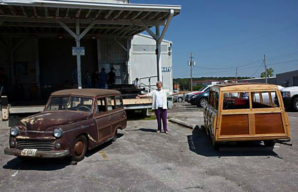 2 original Keller cars ,The Keller plant and Clara Rogers,who worked at the plant in 1948